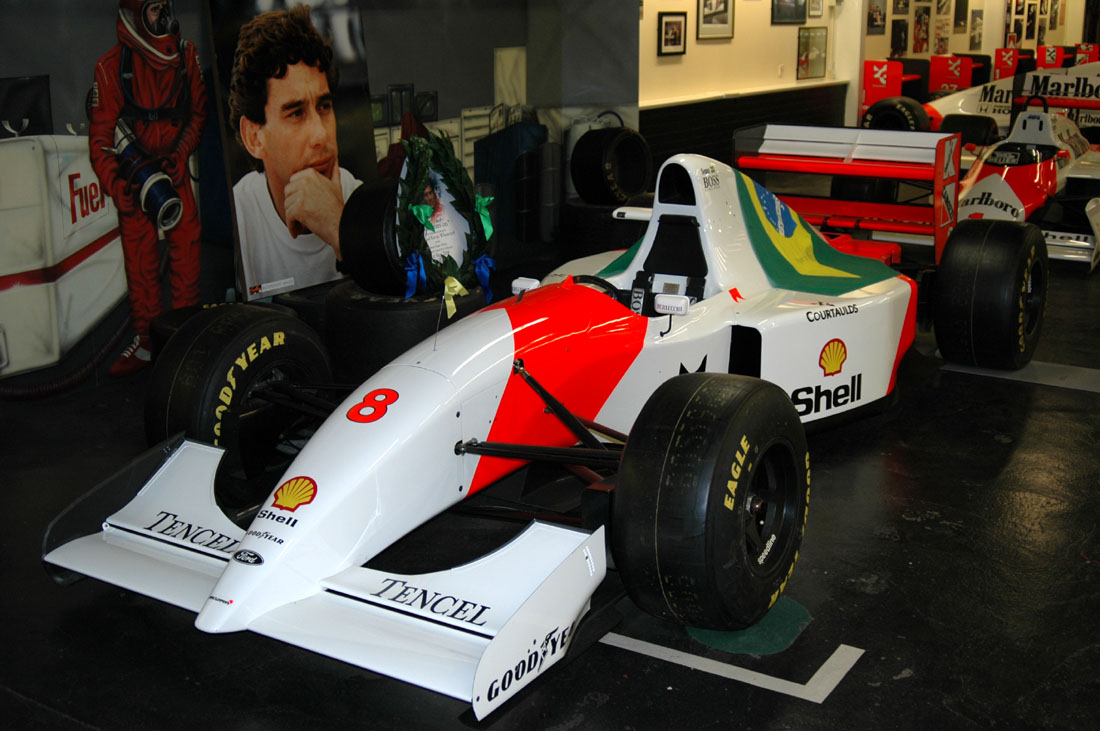 McLaren-Ford MP4/8 in Donington Collection, 2009